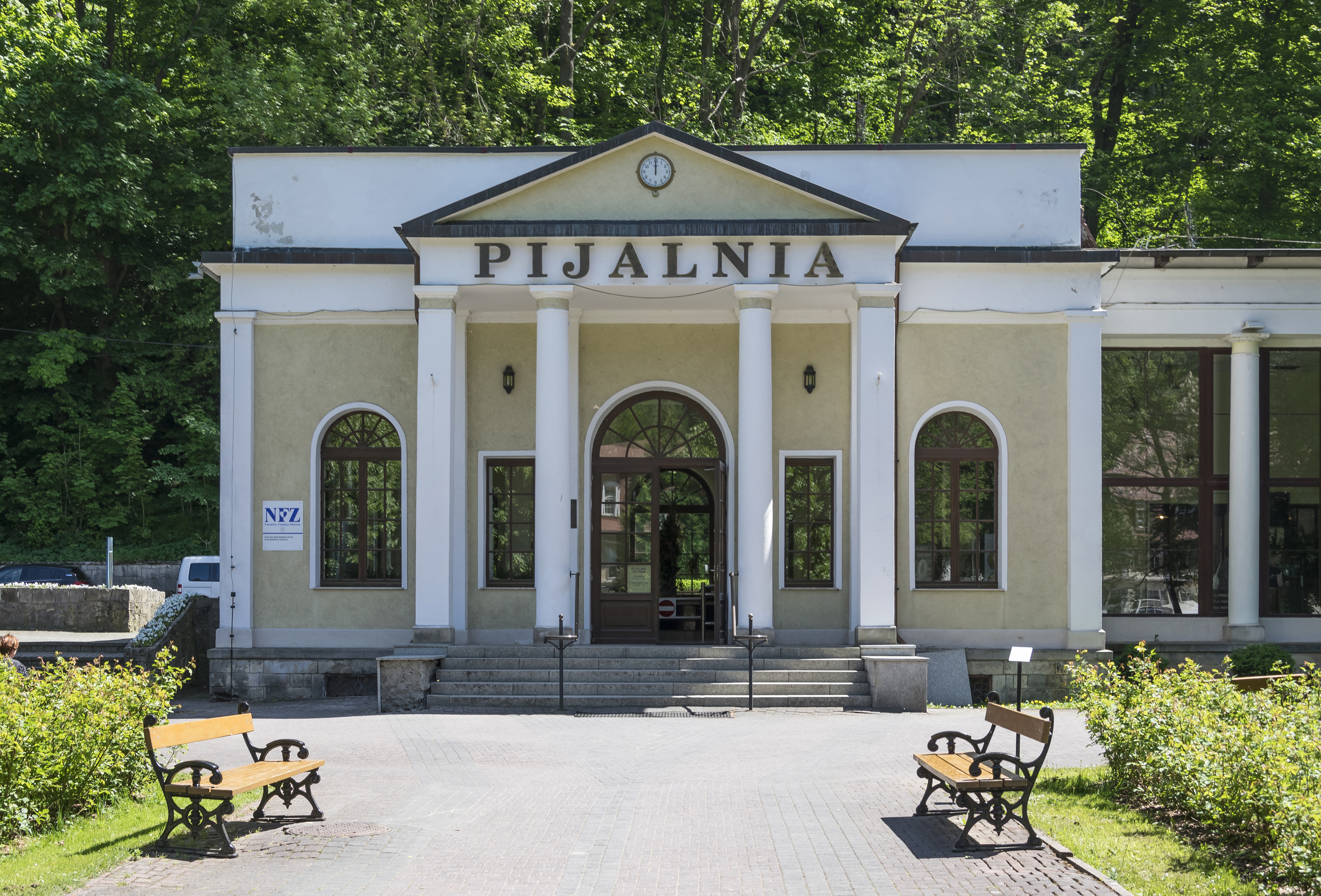 Drinkig house in Duszniki-Zdrój